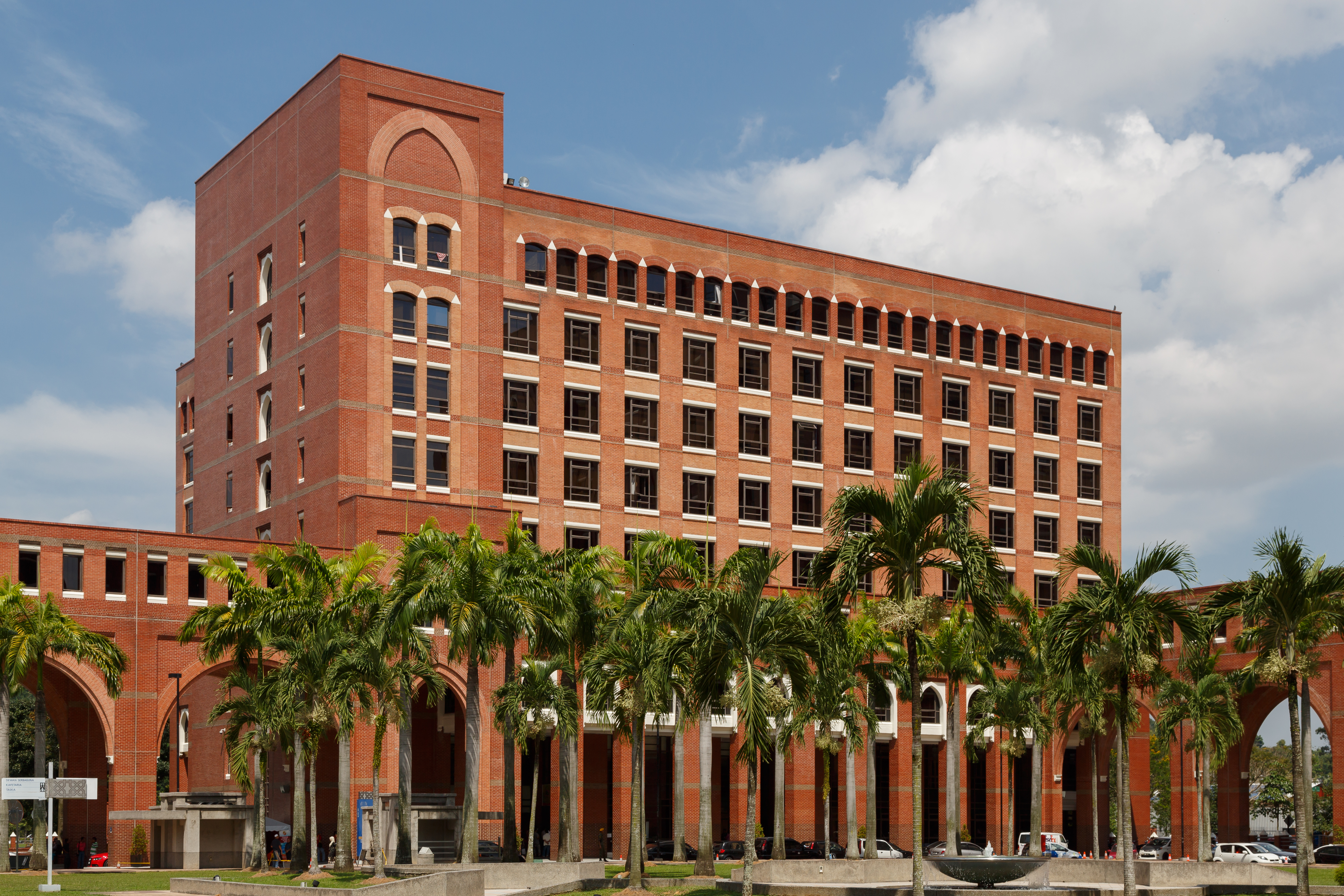 Putrajaya, Malaysia: Federal Government Administrative Centre, Block D9 Level 7,8,9 RELA Corps Headquarters